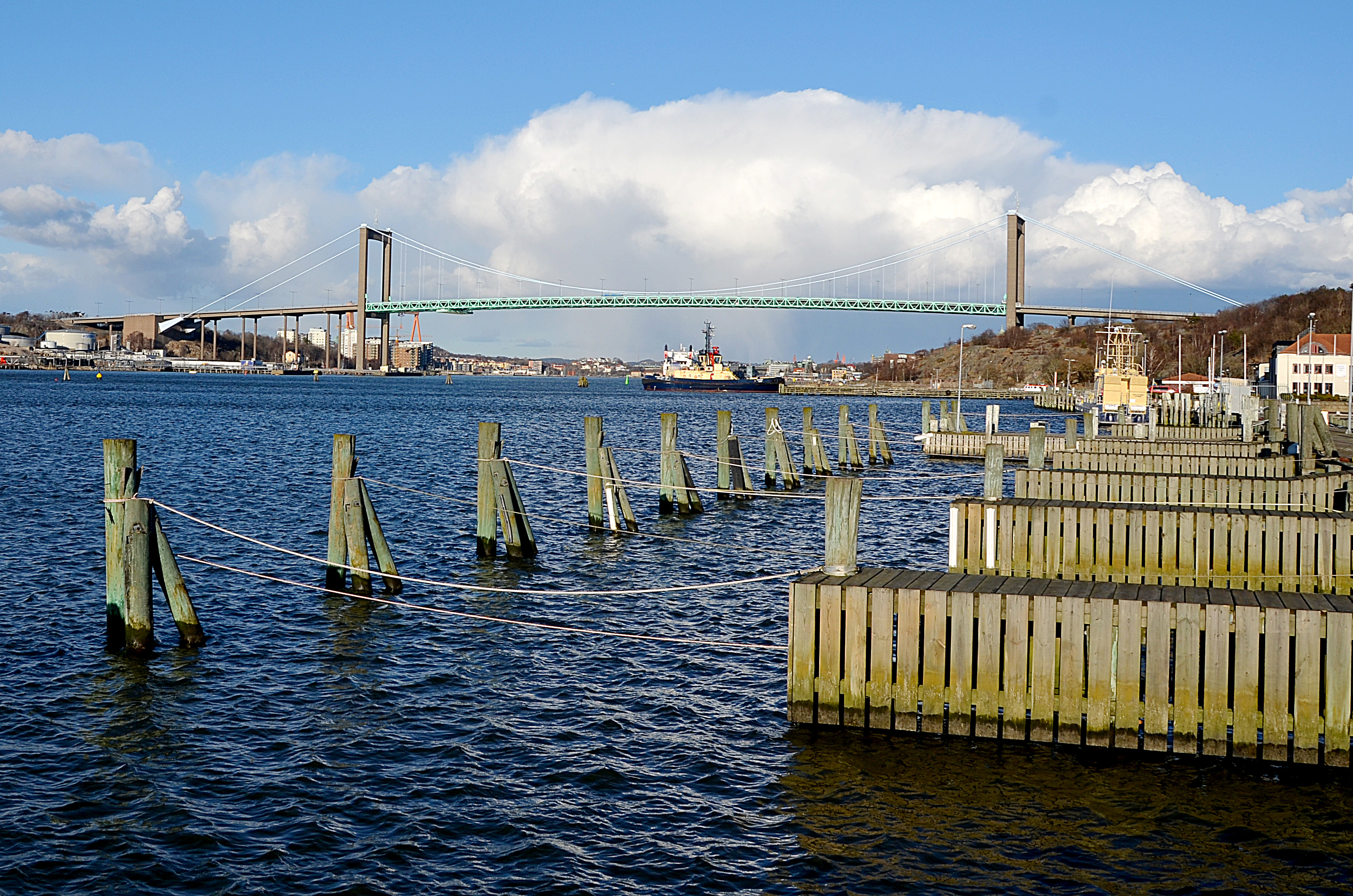 älvsborgsbron from Ny Varvet